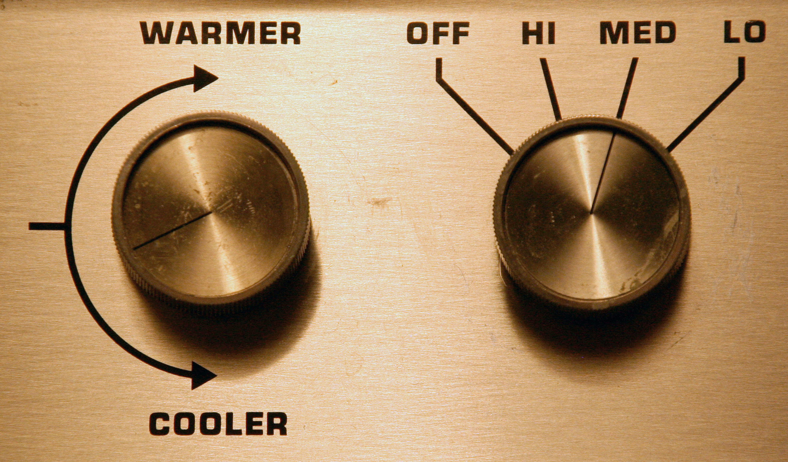 Climate control knobs on a hotel ventilation system.